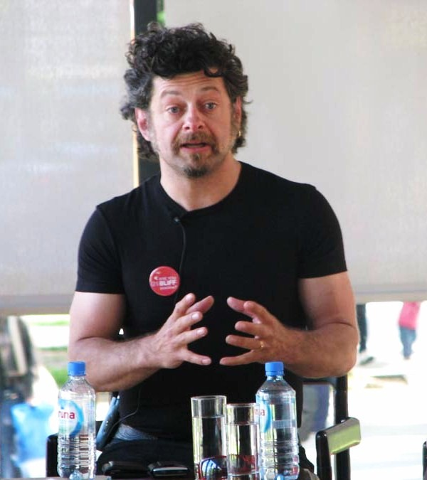 English actor Andy Serkis